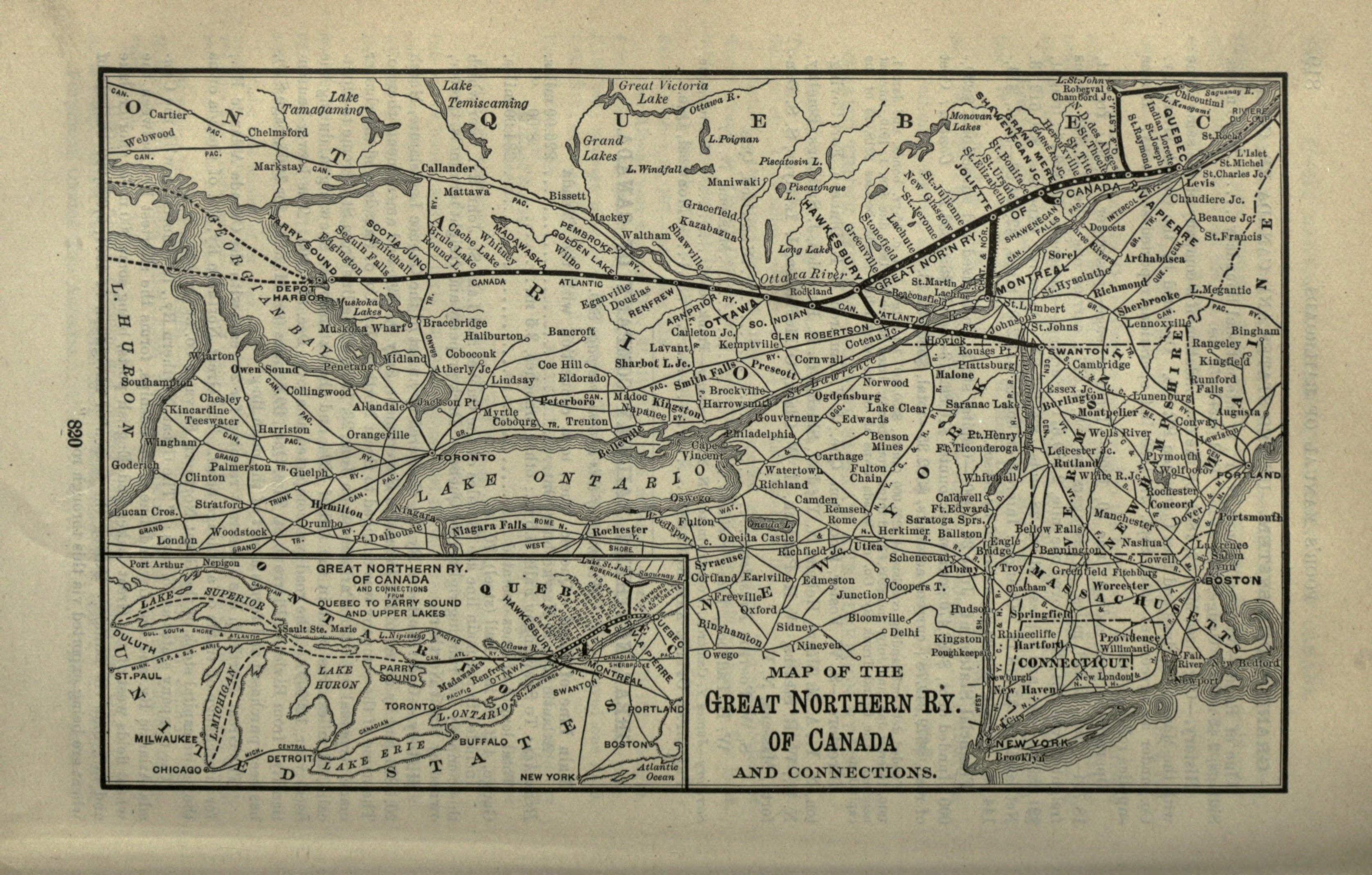 Great Northern Railway of Canada